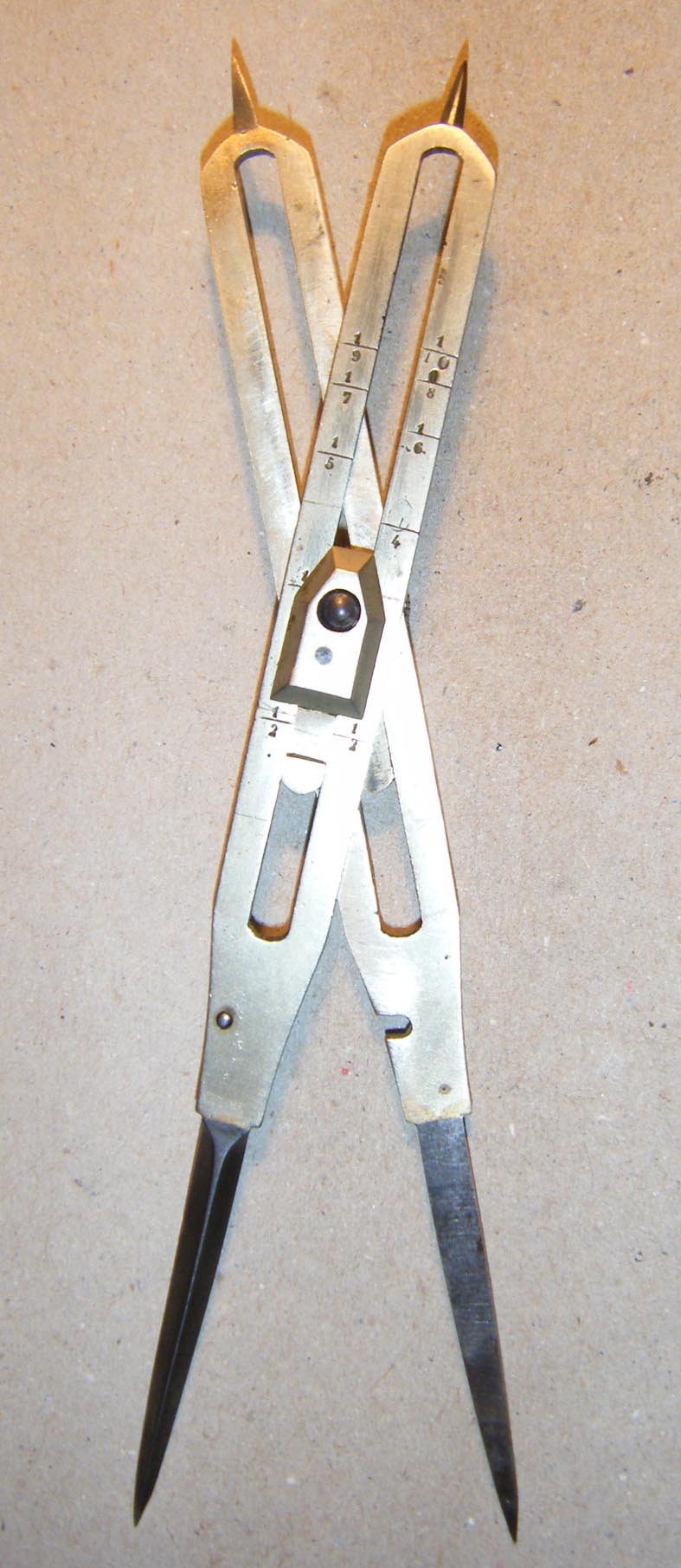 reduction Compass (drafting), proportional compass